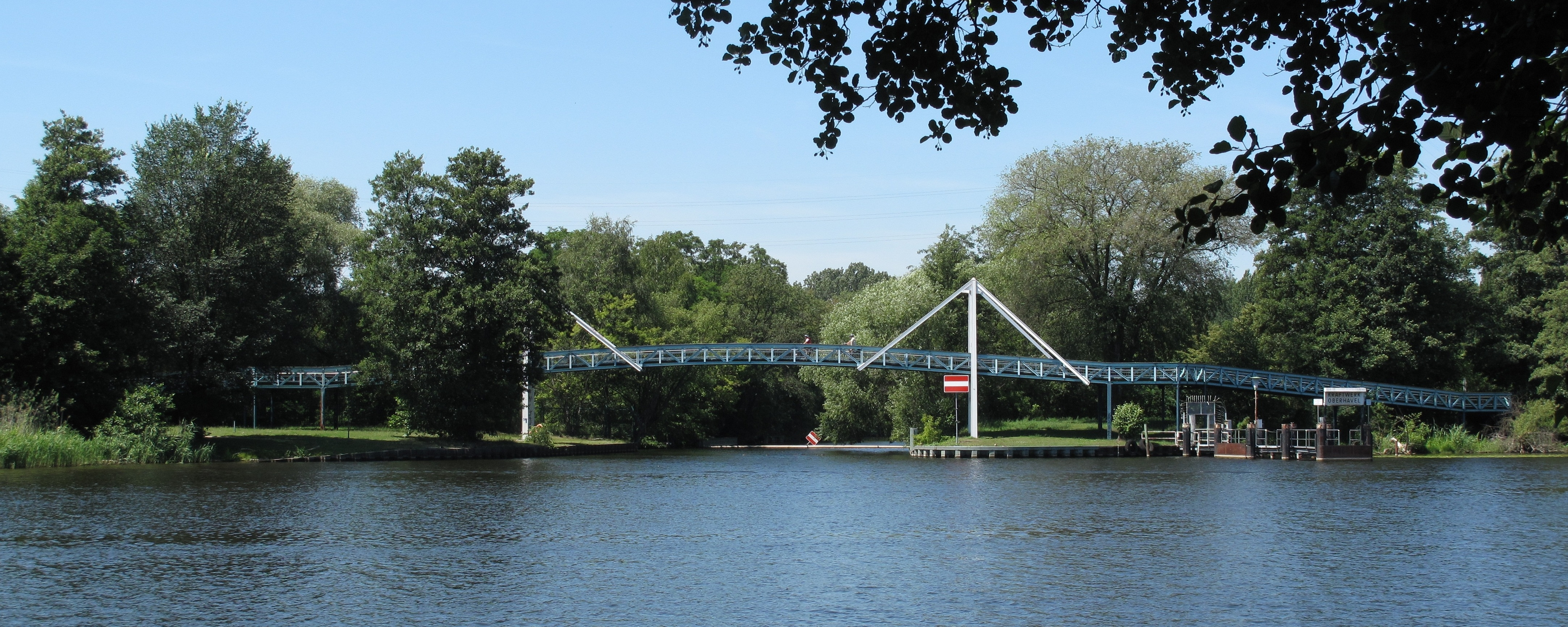 The Oberhavelsteg spans the Teufelsseekanal (canal) and is situated in Berlin, Borough Spandau, locality Hakenfelde. The foot- and bikeway bridge is part of the Berlin-Copenhagen Cycle Route and of the Havel Cycle Route (german: Havelradweg). The barrier-free cable-stayed bridge was opened in 1991 and has a length of 125 meters.